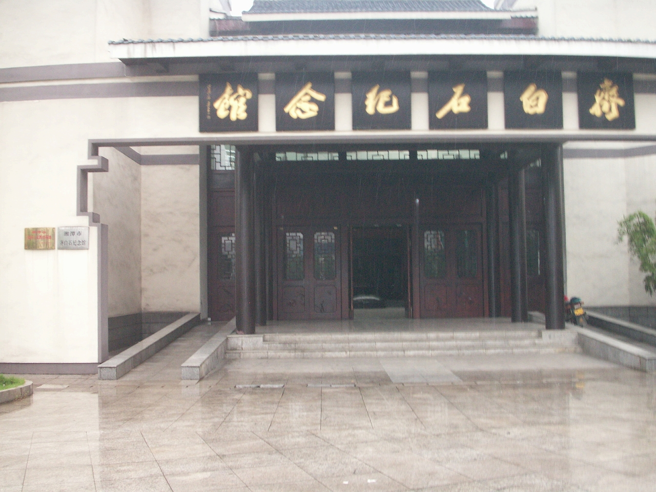 qi bai shi museum